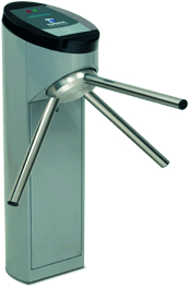 Turnstiles Revolution